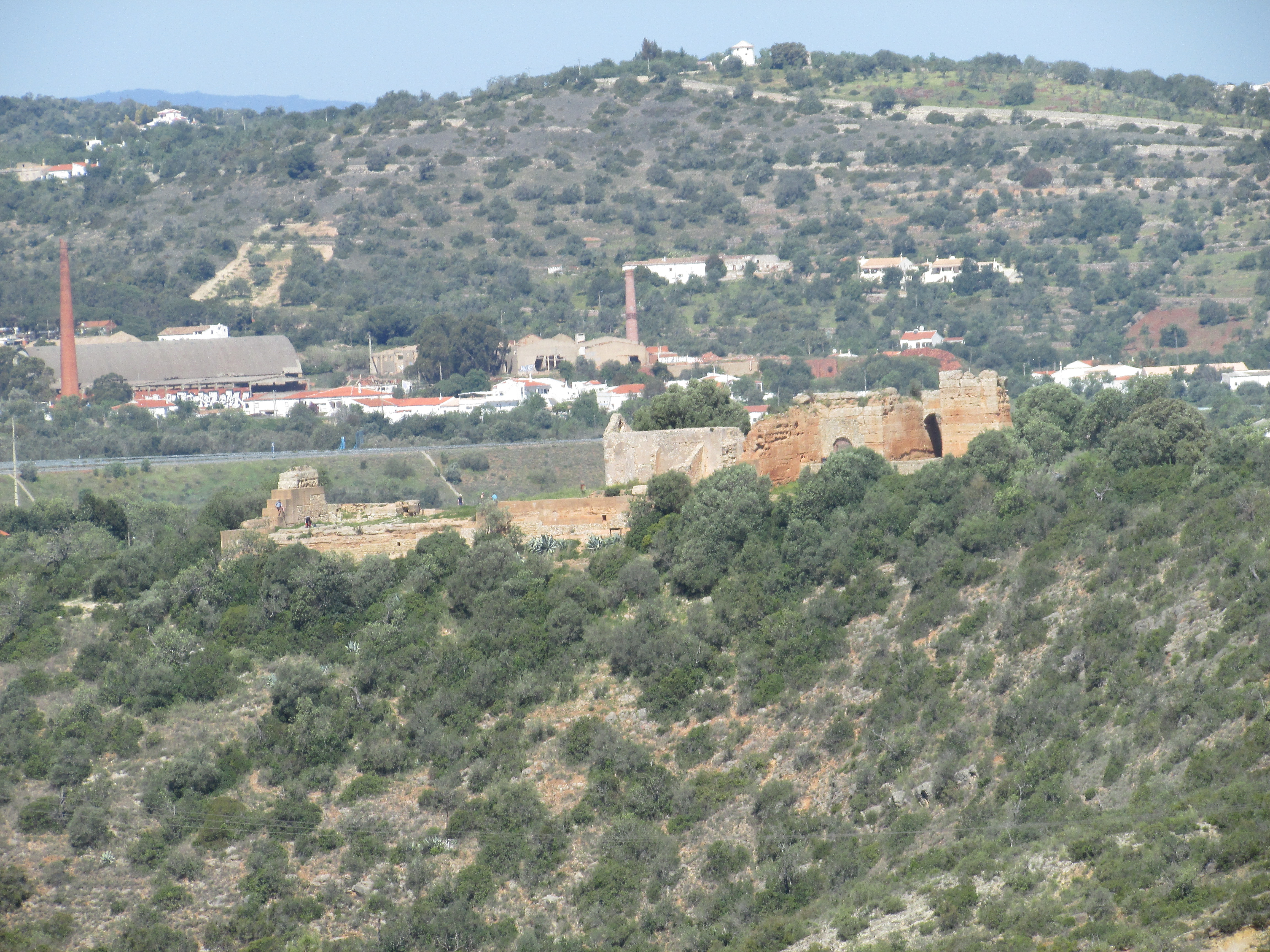 A view across to Paderne castle from the neighbourhood Malhão which is located north east of the city of Albufeira, Algarve, Portugal.